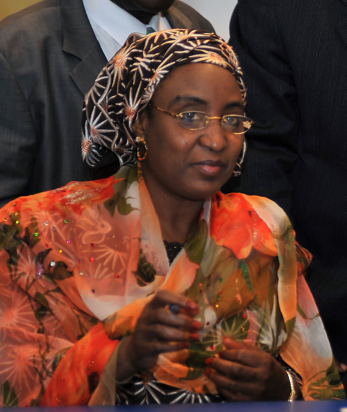 Turai Yar'Adua, the then First Lady of Nigeria, at the IAEA 53rd General Conference in Vienna, Austria